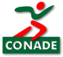 CONADE logo